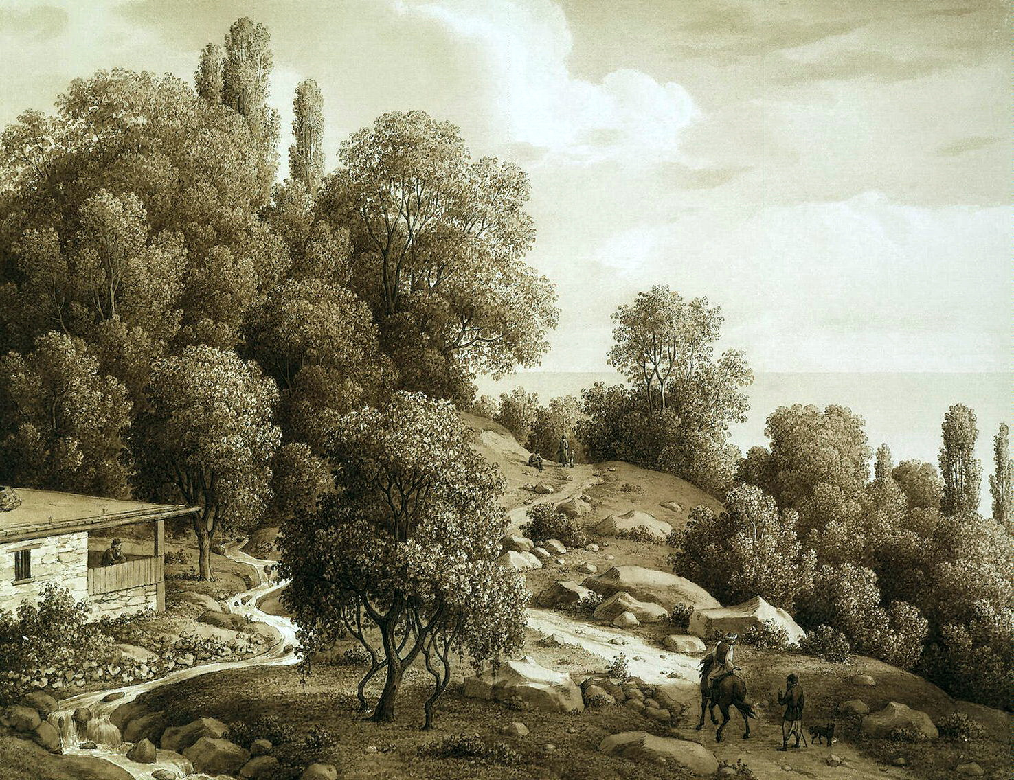 Kügelgen, Carl von - View Mukhalatka, 1824.